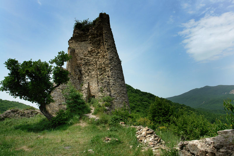 Ujarma Kakheti. City-fortress Ujarma is situated on the right bank of the river Iori, in 45 km to the east of Tbilisi.